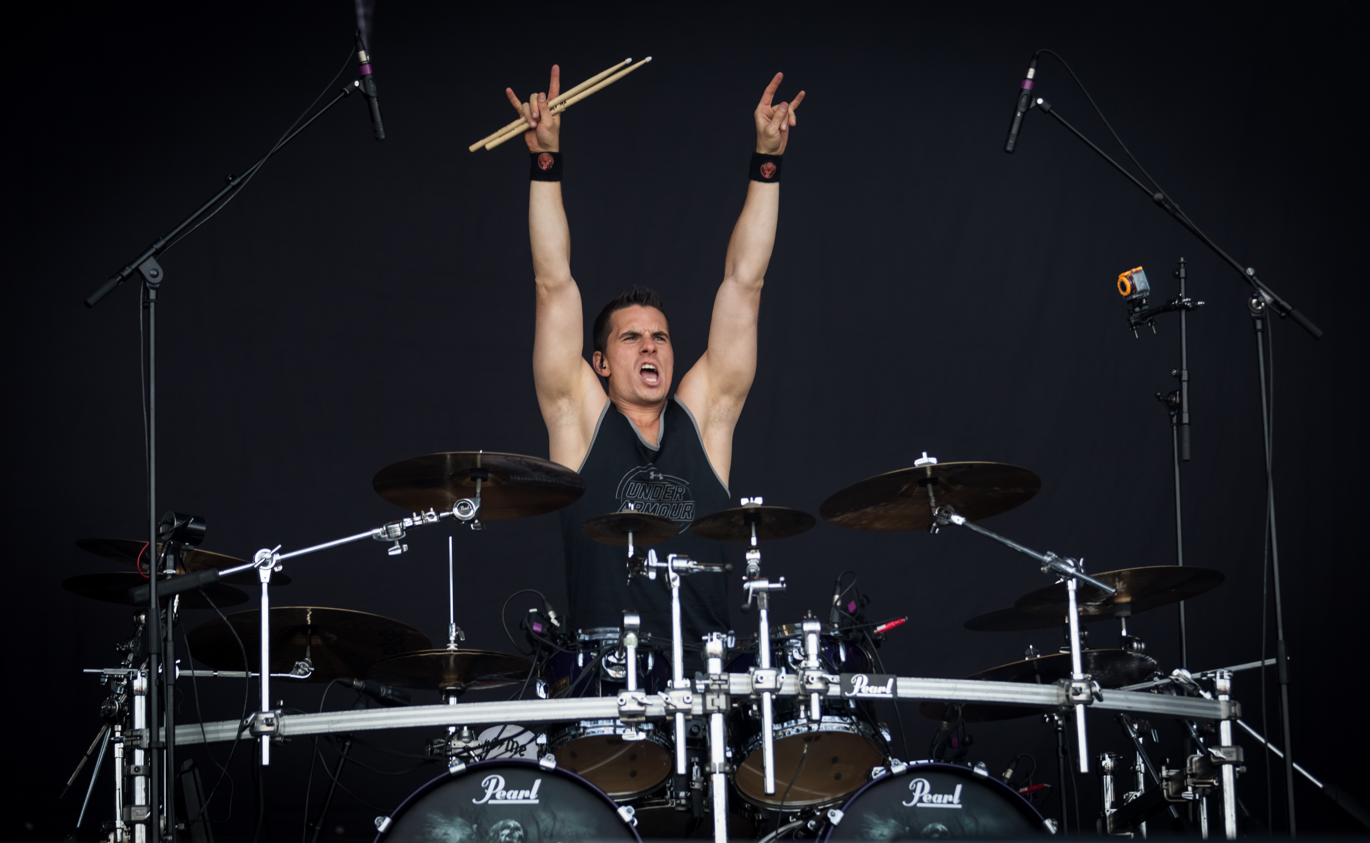 Kataklysm - Wacken Open Air 2015